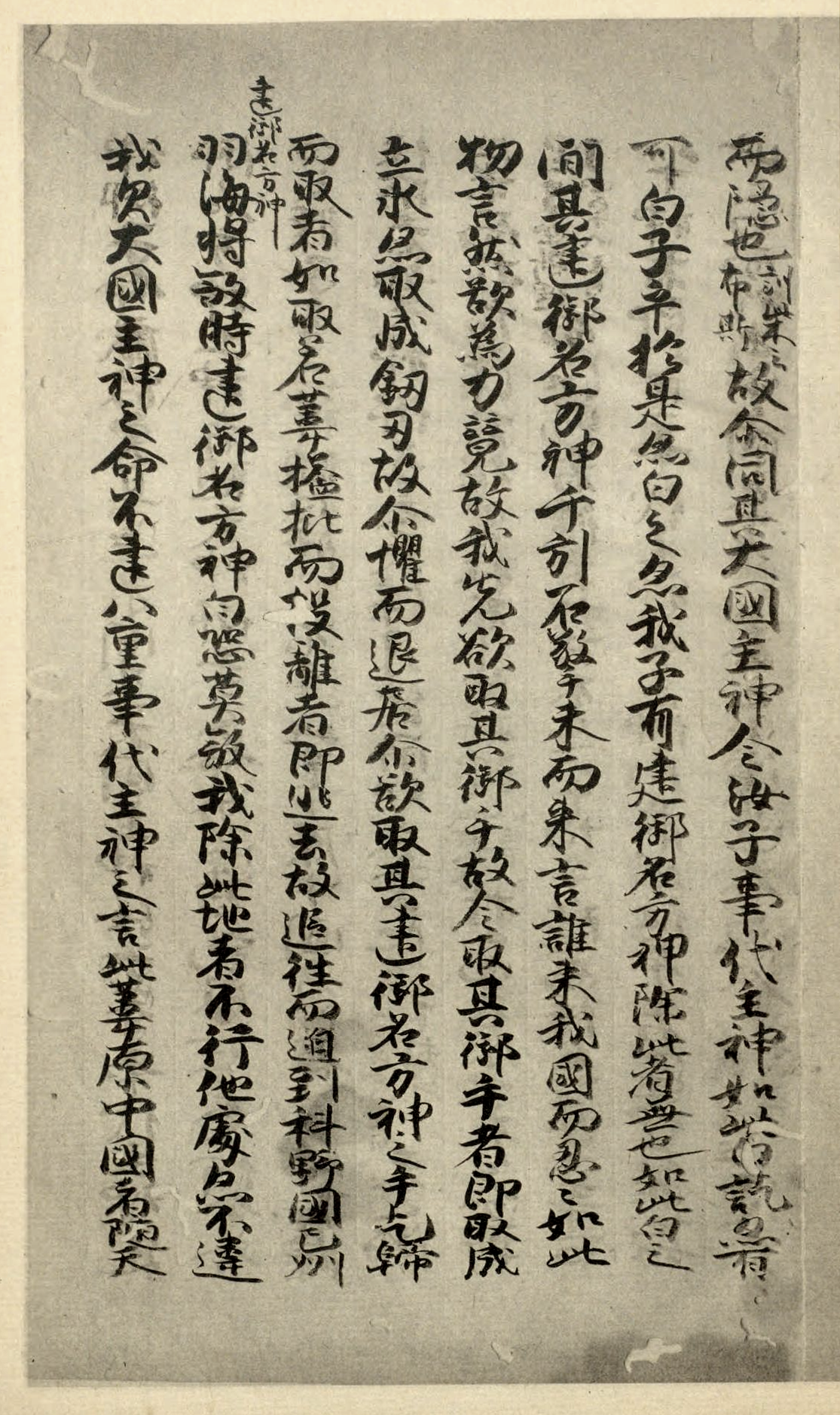 Page from a facsimile of the 14th century Shinpukuji manuscript (真福寺本) of the Kojiki published in 1924-1925.